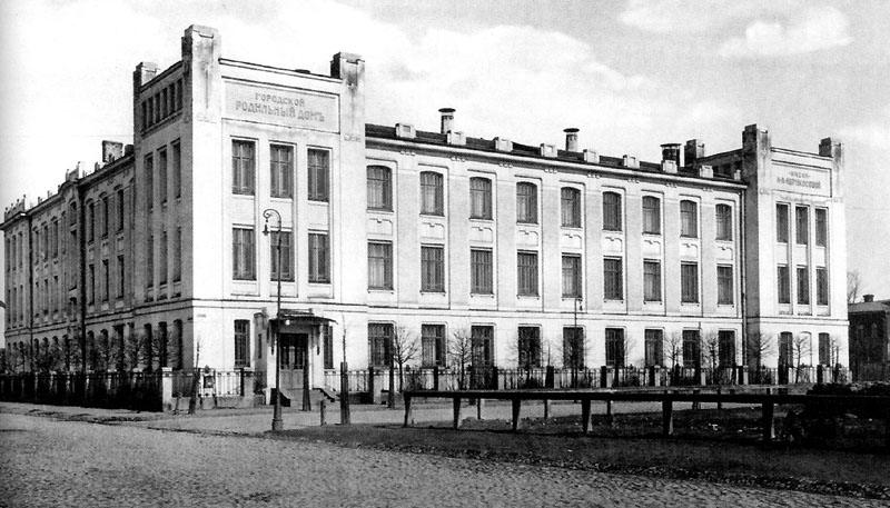 Abrikosov Hospital in Miusskaya Square by Illarion Ivanov-Schitz, 1900-1905.